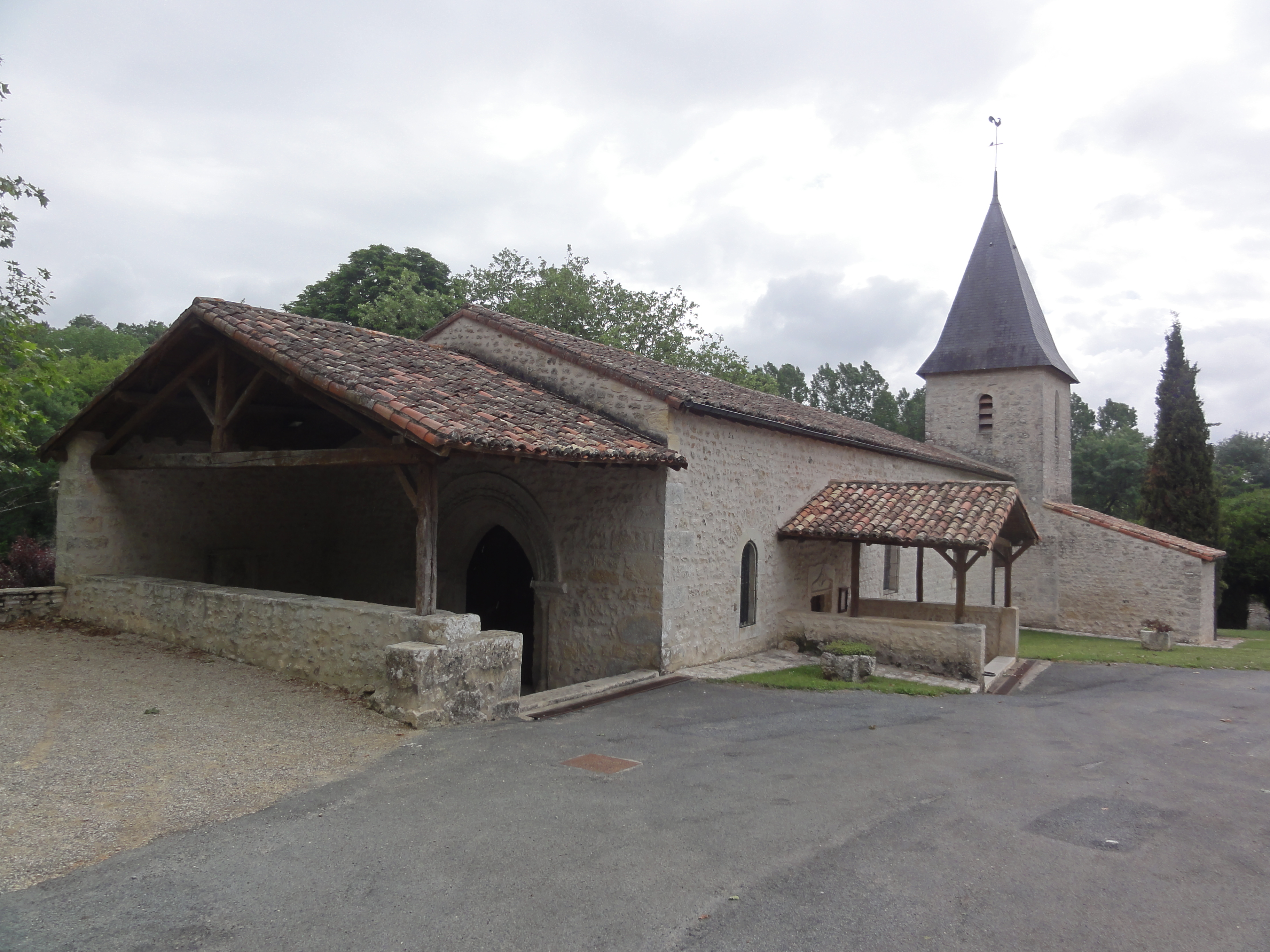 Quinçay (Vienne) église .